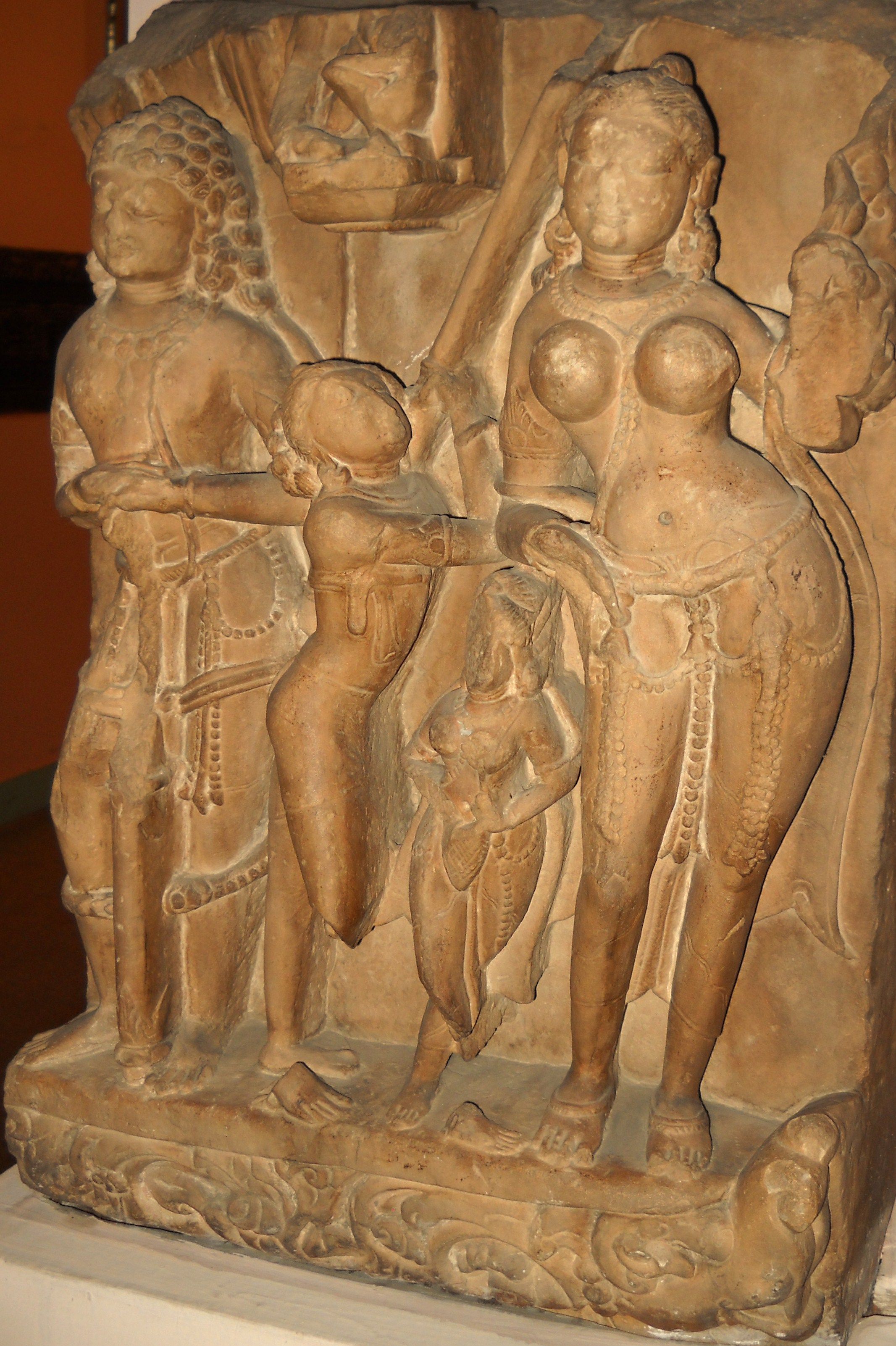 Photograph of the Hindu goddess Ganga, right, the deified Ganges River, in terracotta on a door pillar from U.P., India, Pratihara, 10th century CE. Following iconographic prescription, Ganga stands on her mount, the Makara, a stylized mythological crocodile-like aquatic monster (which unfortunately has been damaged in this piece) and (likely) holds a kumbha, a full pot of water, in her hand (which too has been damaged), while an attendant holds a parasol over her. She leans in the tribhanga pose on a dwarf attendent, while a male guard (or consort?) stands nearby. The dimensions of the art-work are: height: 63 cm (25 in), width: 39 cm (15 in), depth: 26 cm (10 in). From the National Museum of India, New Delhi, taken by Fowler&fowler«Talk» 03:46, 16 May 2011 (UTC)